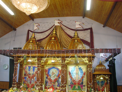 Images at Oldham Swaminarayan Temple